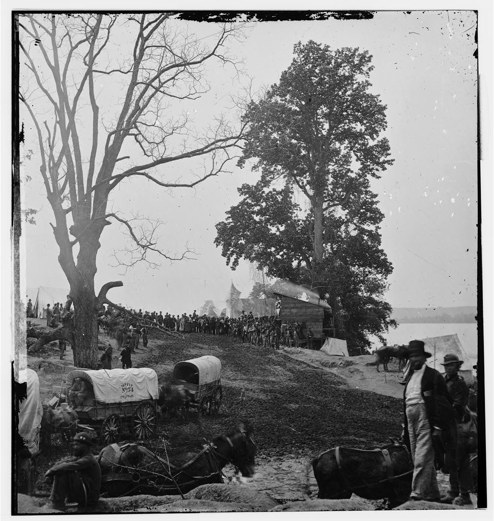 Belle Plain, Va. Wagons of the Sanitary Commission and a crowd at the landing (1864) LC-B811-2478A (Library of Congress)